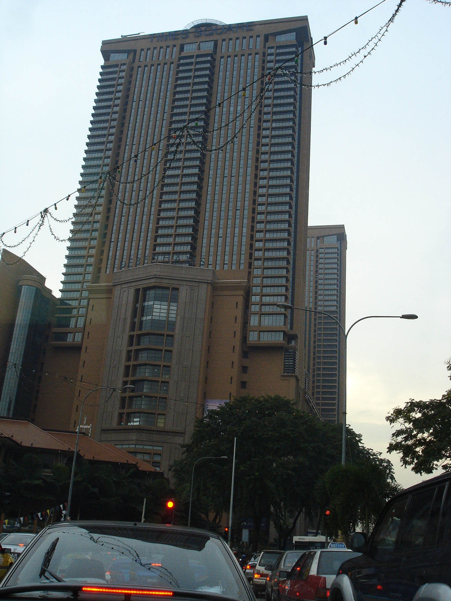 Berjaya Times Square